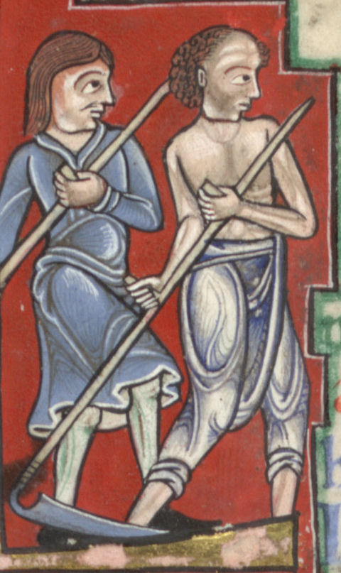 "Mowing", folio 4r, detail from the Hunterian Psalter, Glasgow University Library MS Hunter 229 (U.3.2)